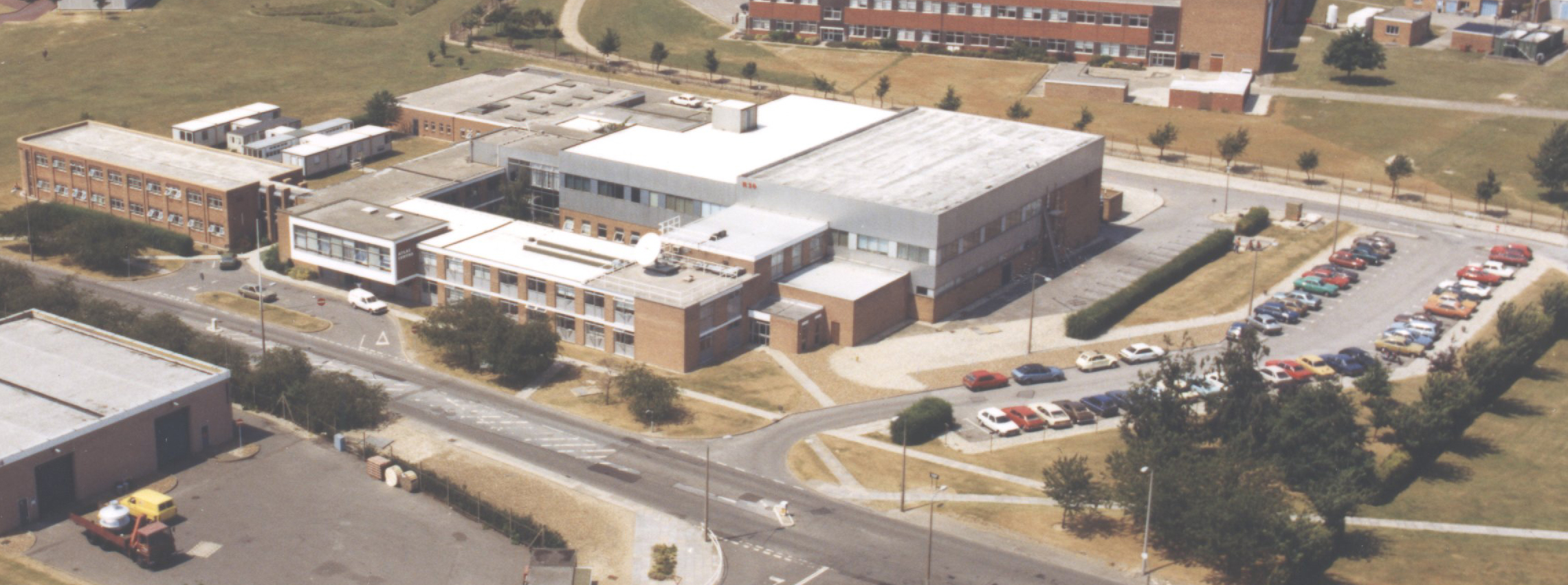 aerial view of the Atlas Computer Laboratory, Chilton, UK